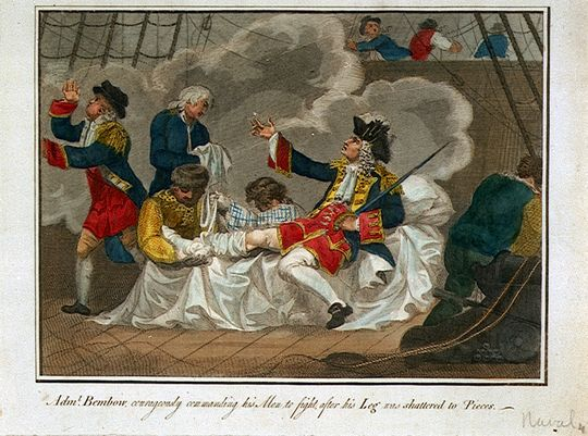 Adml John Benbow courageously commanding his Men to fight after his Leg was shattered to Pieces, St Martha (West Indies) 19-24 July 1702